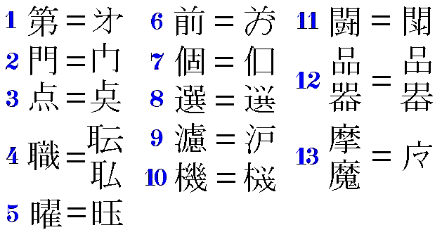 Ryakuji, simplifications of Kanji.